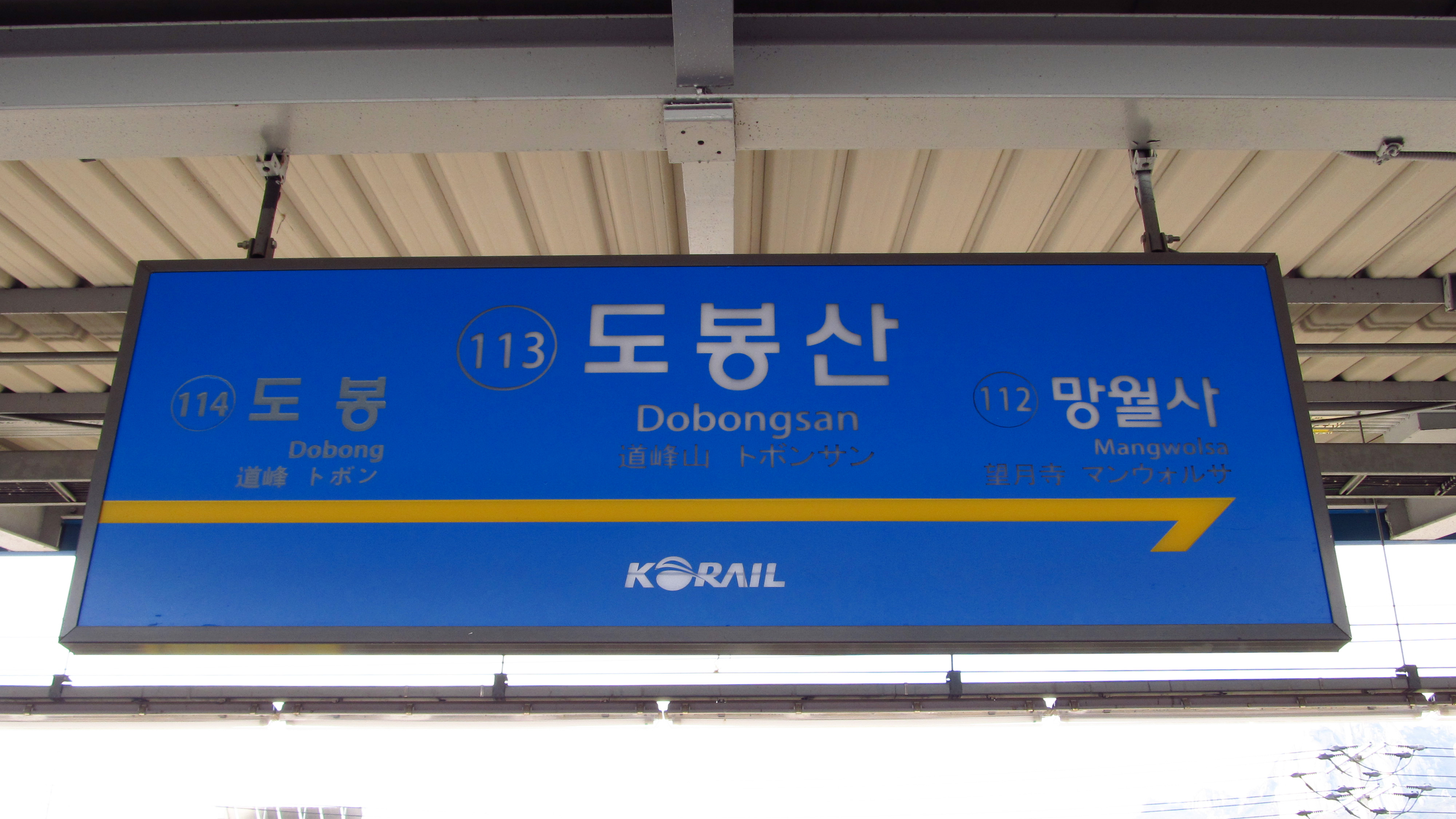 A sign of Dobongsan Station on Seoul Subway Line 1